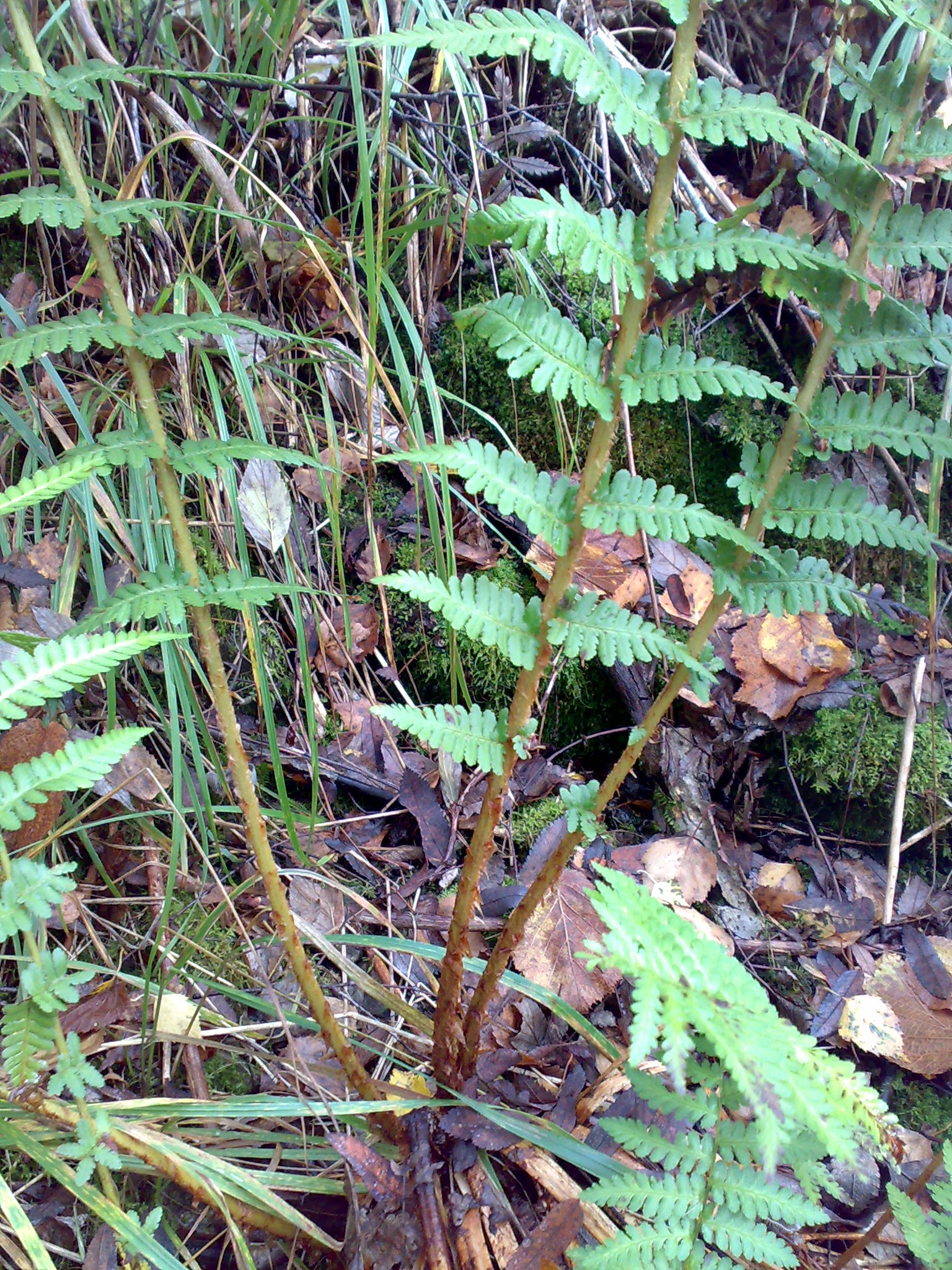 Dryopteris filix-mas in Sörkedalen, Oslo, Norway